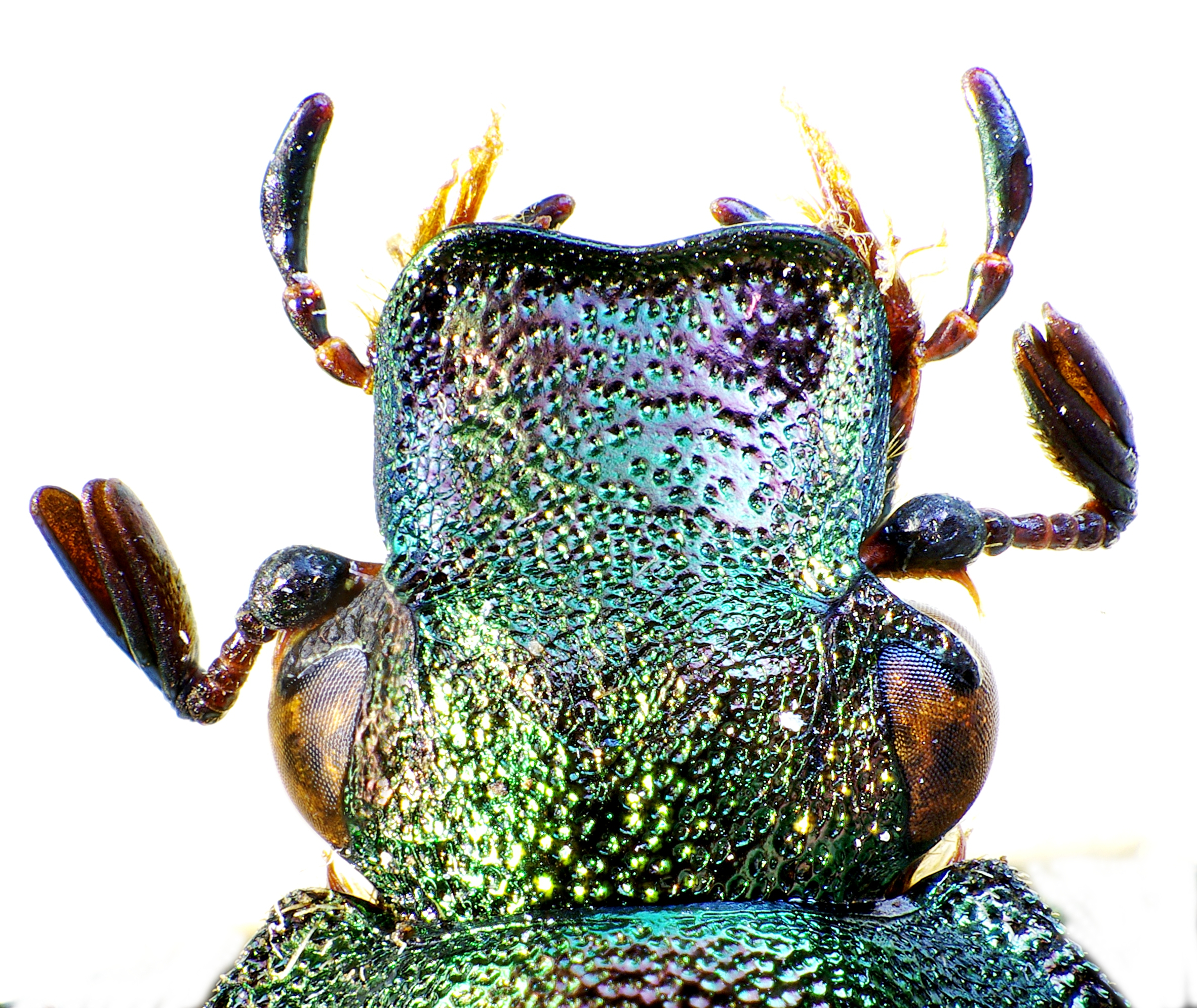 Gnorimus nobilis head